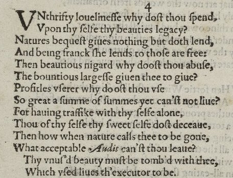 Sonnet 4 printed in the 1609 Quarto of Shakespeare's Sonnets